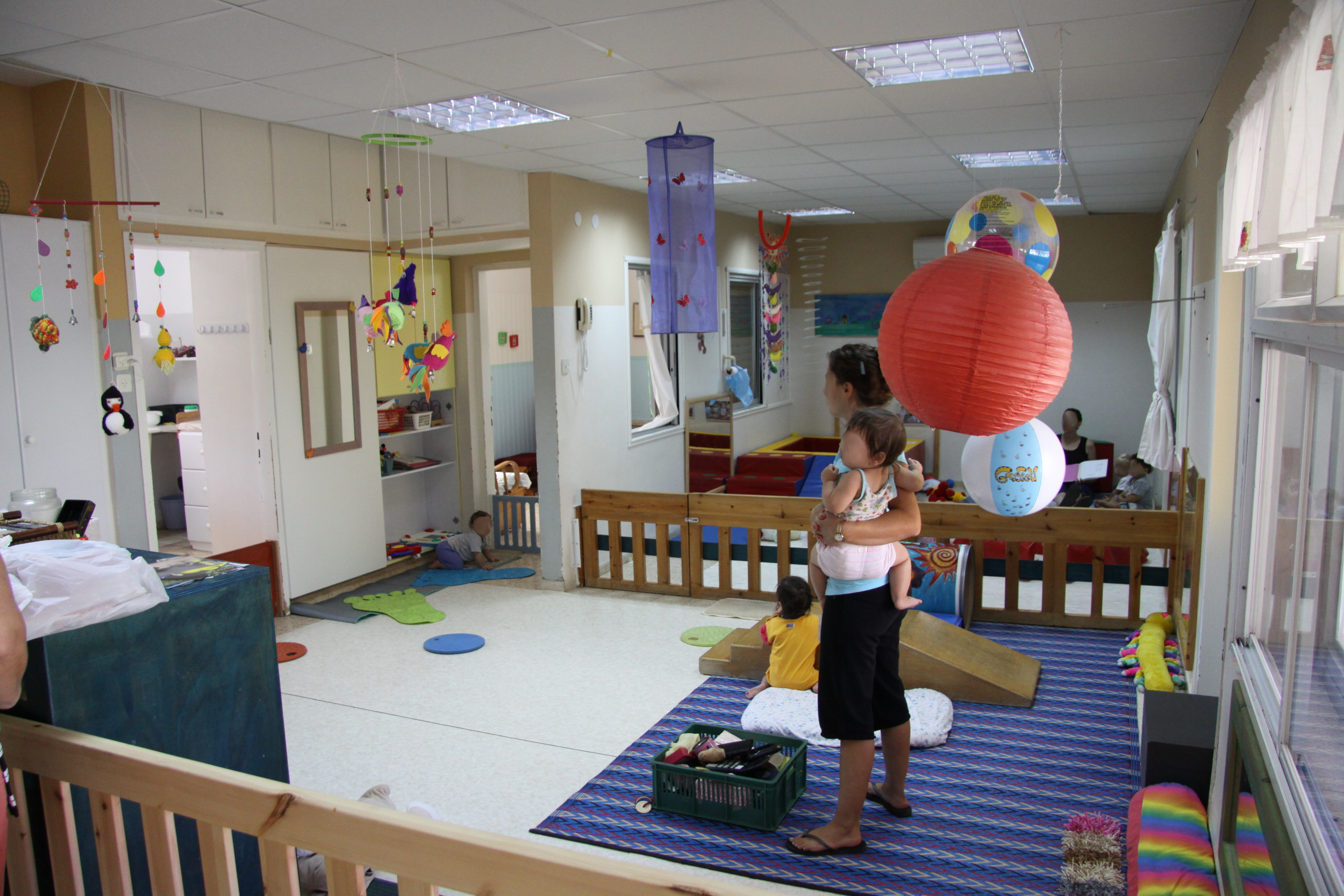 Infant-school in Kibbutz Geva in Israel - Google Maps - Google Earth